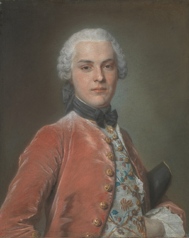 Pastel portrait of Henry Dawkins (1728–1814), English politician and plantation owner